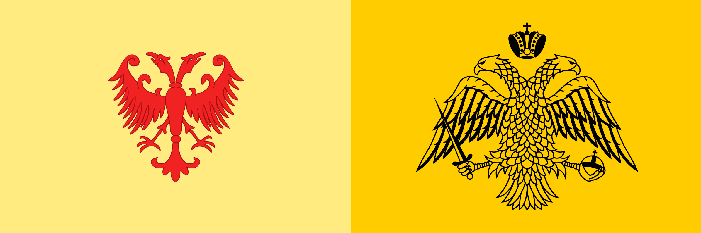 The flags of Serbian and Byzantine empire